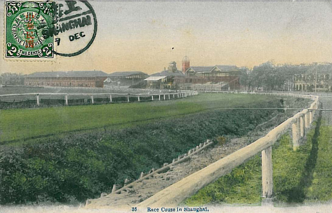 historic view of Shanghai